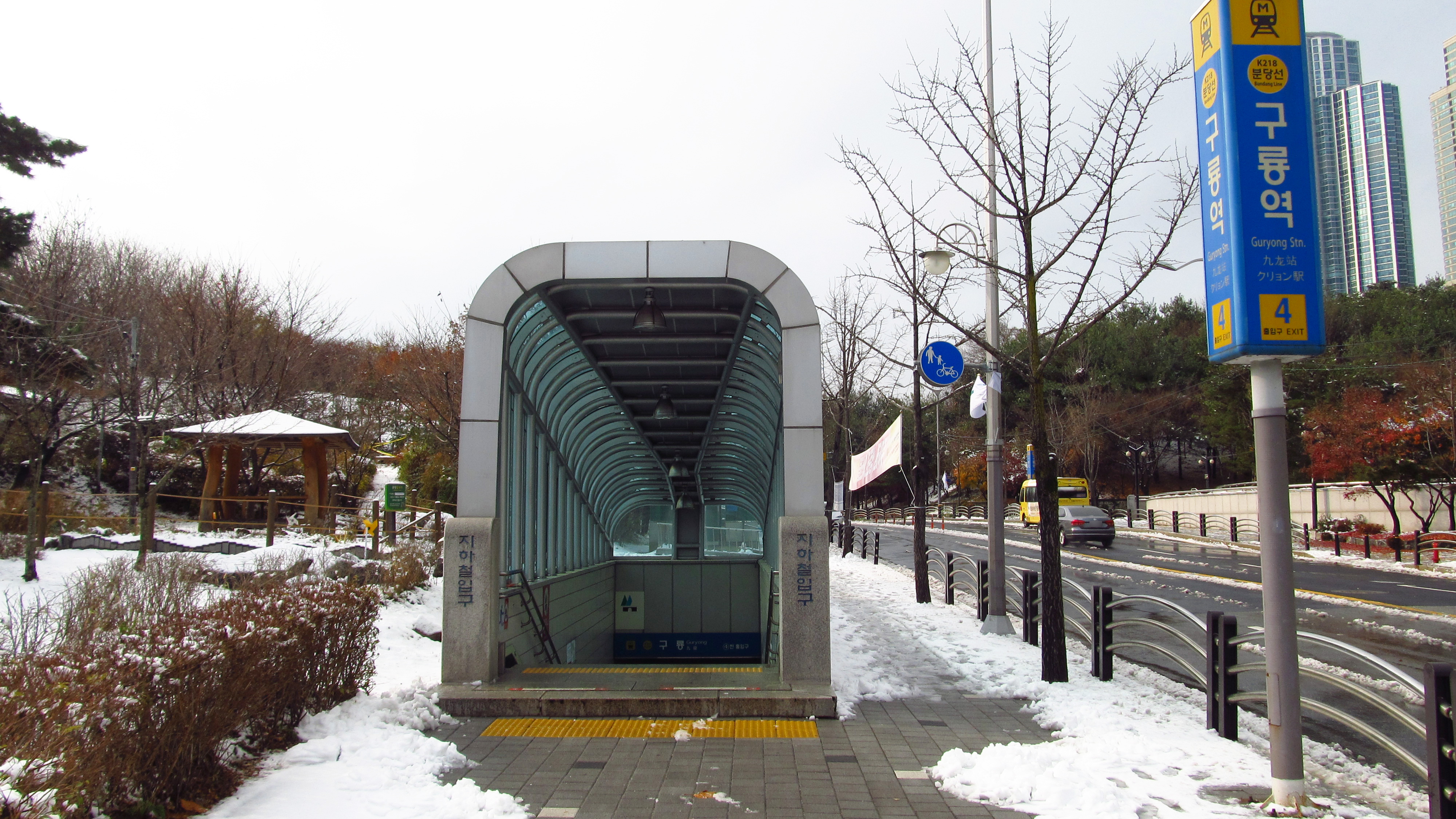 The no.4 entrance to Guryong Station on Bundang Line in Gangnam-gu, Seoul, Republic of Korea(South Korea)